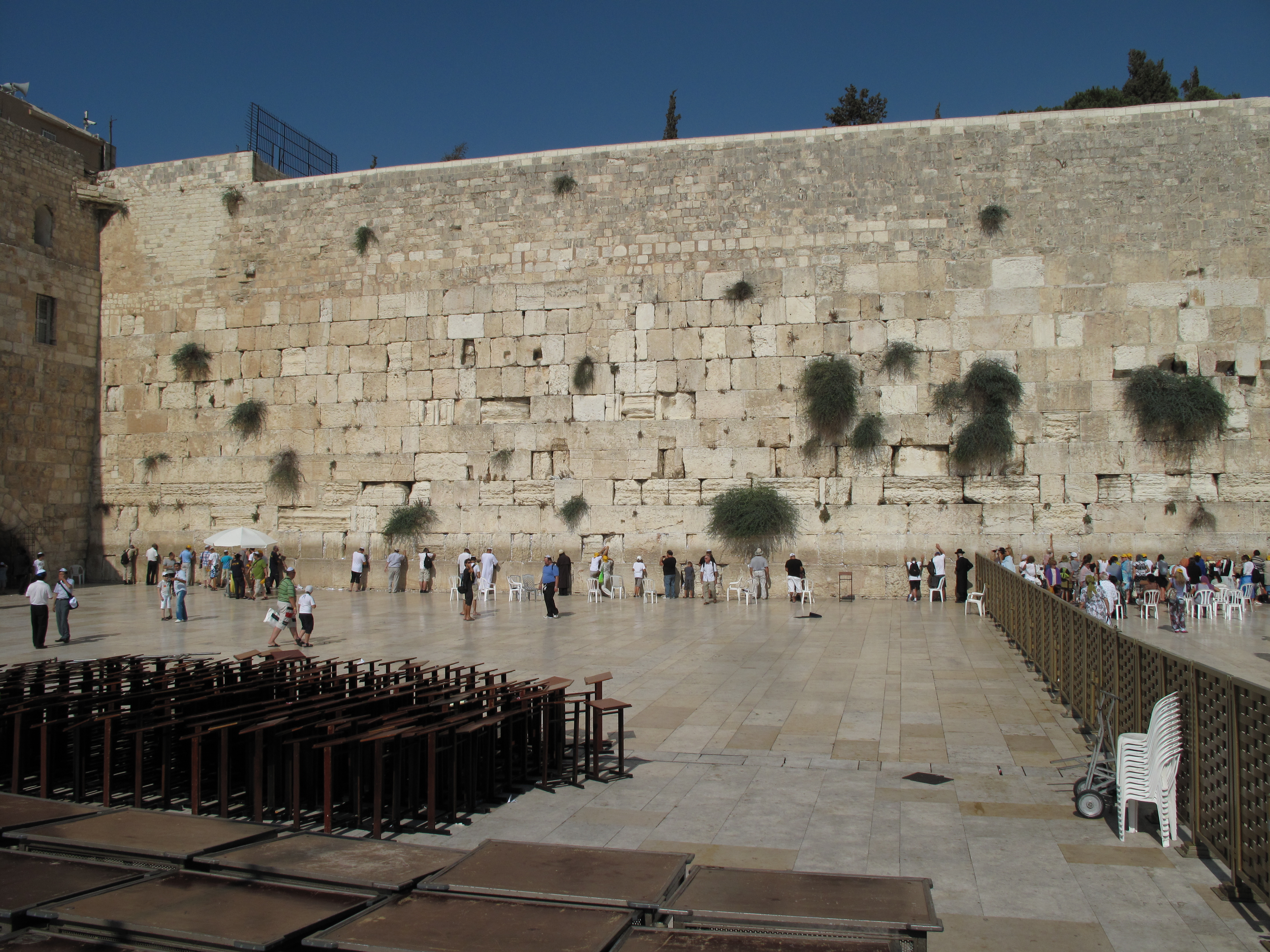 Jerusalem, Israel.